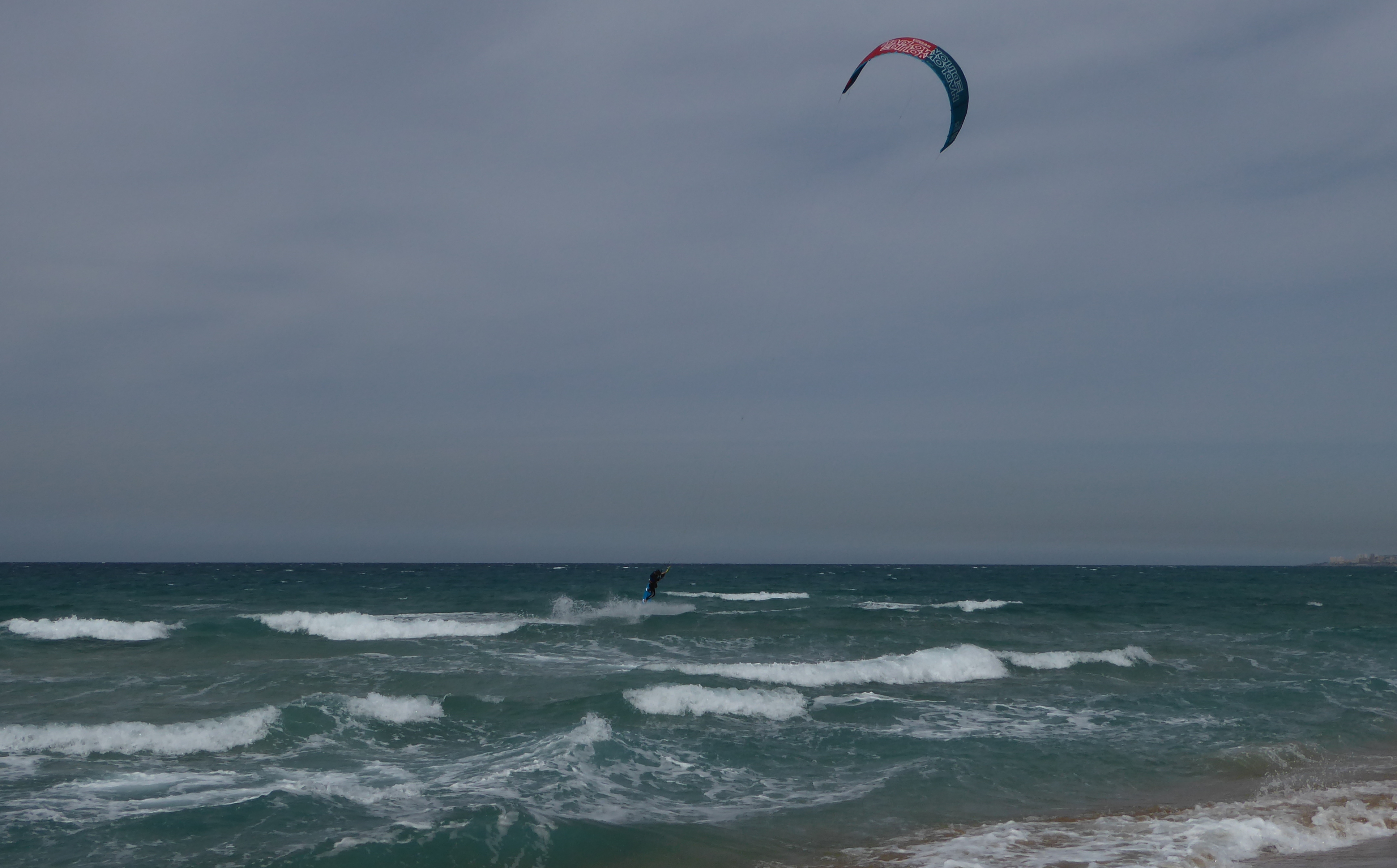 Beaches of Israel